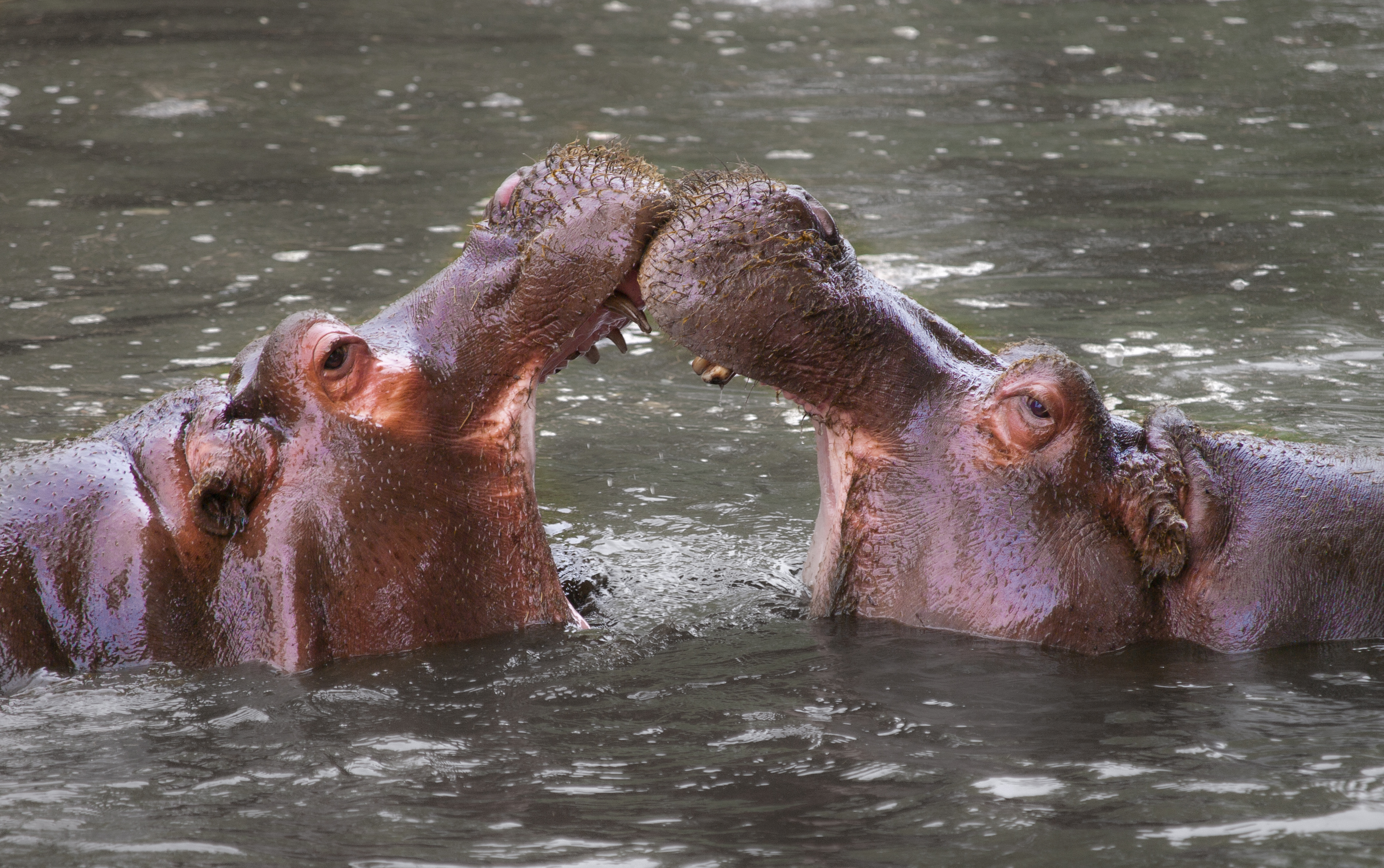 Hippopotami at the Whipsnade Zoo in Bedfordshire, England.